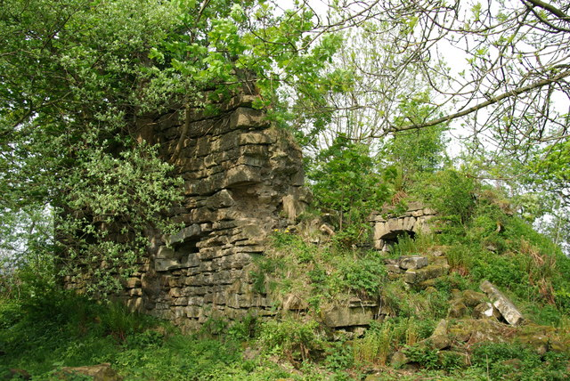 Belltrees Peel Built on what was once an island, this 16th-century tower house of the Stewarts later came into the possession of the Semple family.